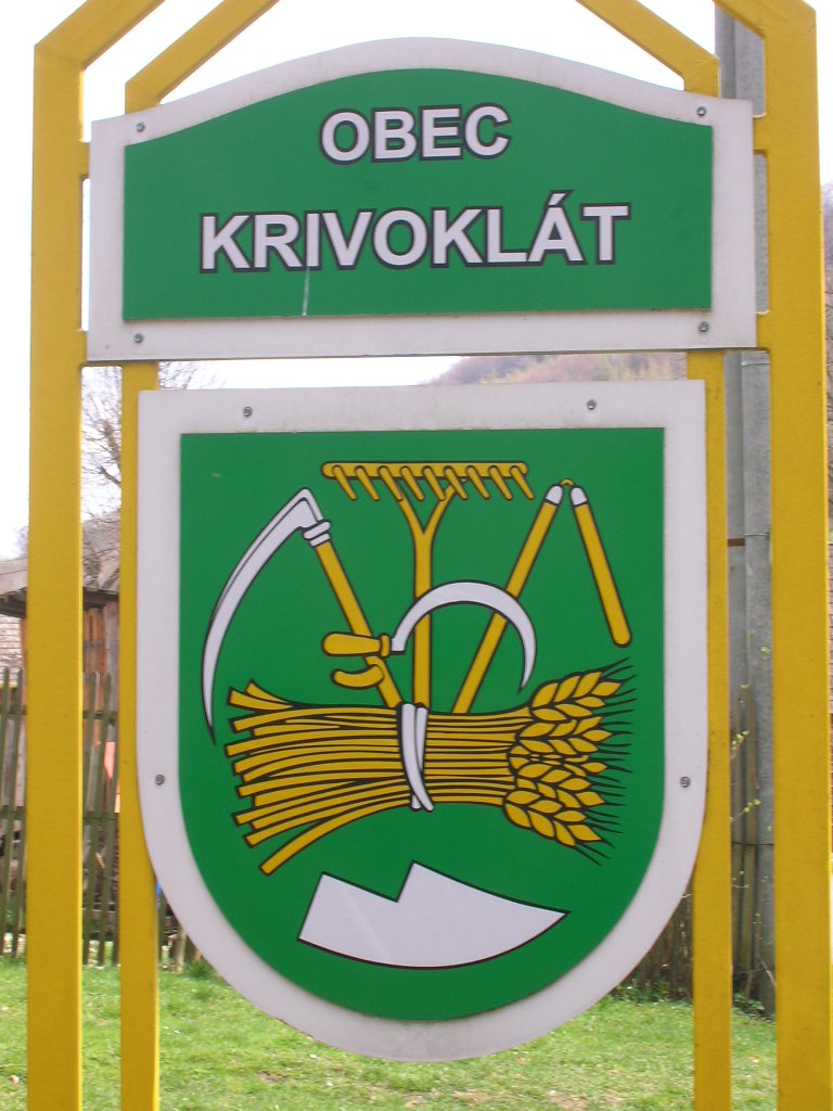 Coat of arms of Krivoklát, Slovakia